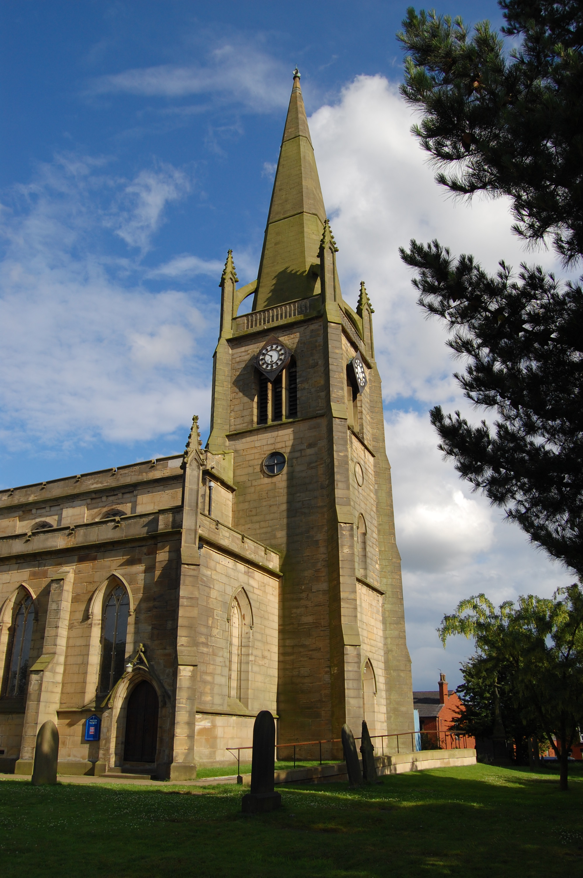 West tower and spire of St George's parish church, in Tyldesley, Greater Manchester, England, seen from the northwest